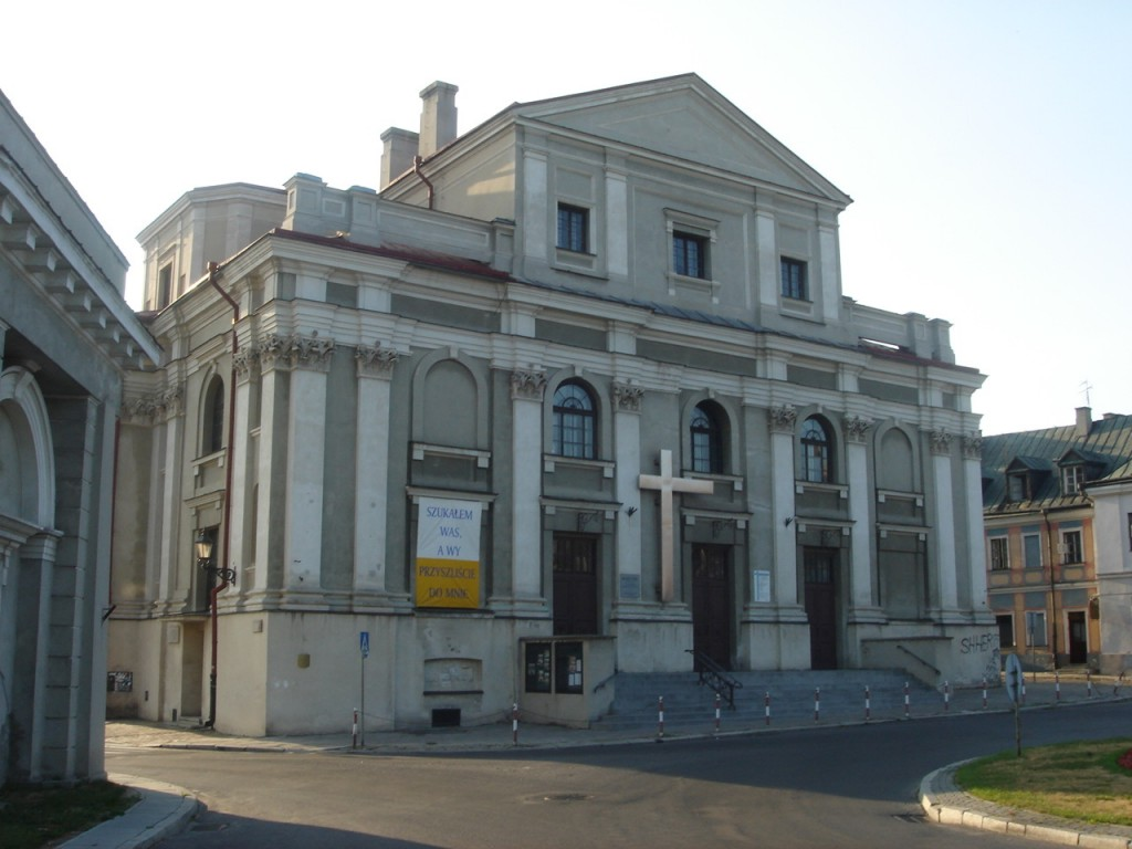 Franciscian church in Zamość, Poland